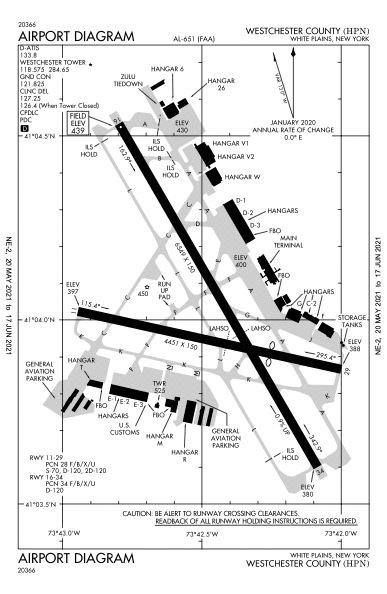 FAA diagram of Westchester County Airport (HPN)